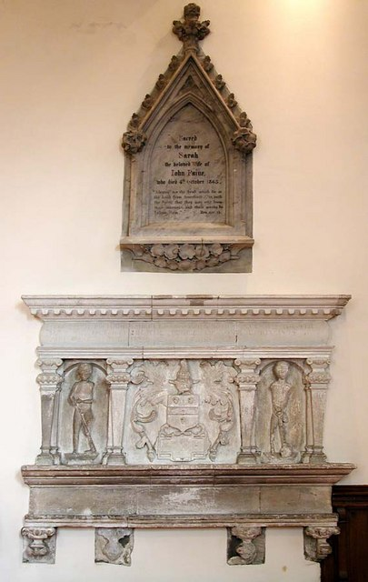 All Saints, Patcham, Sussex - Wall monument